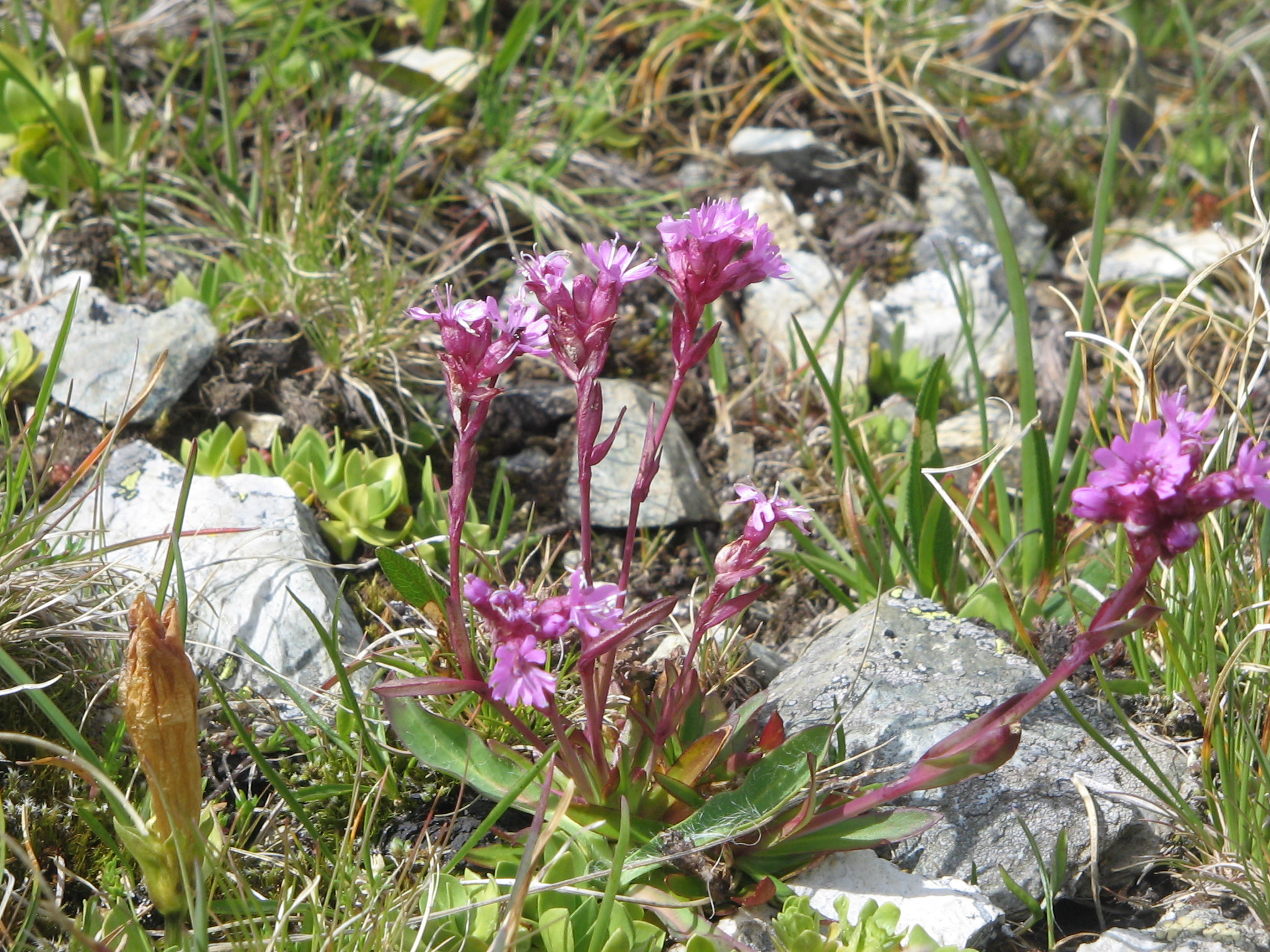 Viscaria alpina